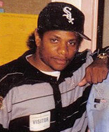 With Eazy-E as an LAPD Explorer.